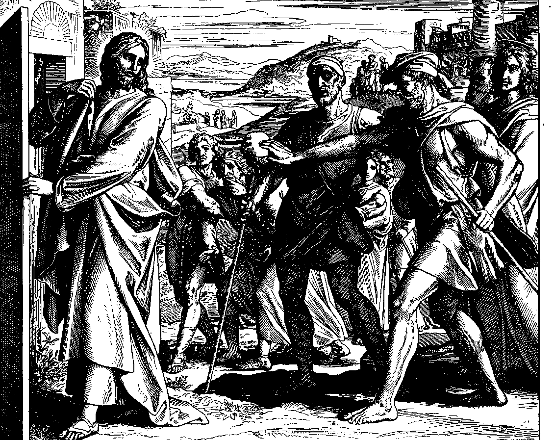 Jesus heals two blind men by Julius Schnorr, 19th century